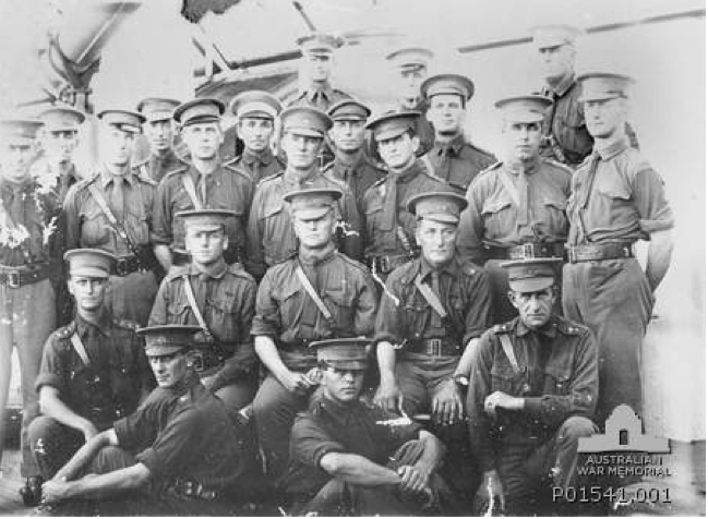 AT SEA. 1914-12-10. GROUP PORTRAIT OF OFFICERS OF THE 5TH AUSTRALIAN LIGHT HORSE REGIMENT (5ALH) ABOARD SS PERSIC EN ROUTE TO EGYPT. LEFT TO RIGHT: BACK ROWS: CAPTAIN (CAPT) EDWARD STEWART JAMES, CAPT HENRY KING IRVING, CHAPLAIN FRANCIS DE MOAG TUBMANN, CAPT RICHARD STEWART BILLINGTON, CAPT JOSEPH ESPIE DODS, MAJOR (MAJ) WILLIAM CHATHAM, CAPT THOMAS JOSEPH BRUNDRIT (KIA ANZAC 1915-10), LIEUTENANT COLONEL (LT COL) DONALD CHARLES CAMERON, MAJ WILLIAM LECKEY FERGUSON WRIGHT, CAPT GEORGE PETER DONOVAN, LIEUTENANT (LT) THOMAS BESWICK FARGHER, CAPT HERBERT FRANCIS MCLAUGHLIN, CAPT AUGUSTUS MAXWELL RYAN, LT JOHN MATTHEW HANLY (KIA ANZAC 1915-06), CAPT MALCOLM STUART KENNEDY; SECOND ROW: CAPT PAUL DEGGE ROBINSON, LT COL LACHLAN CHISHOLM WILSON, LT COL HUBERT JENNINGS IMRIE HARRIS, MAJ EDMUND EDWARD RIGHETTI, CAPT EUSTACE ROYSTON BAUM PIKE; FRONT ROW: CAPT JOHN GEORGE DONALD MCNEILL, MAJ ROBERT HAROLD NIMMO.